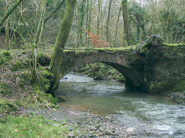 Bridge on the Loughor at Glynhir Wider than a footbridge, this bridge is on a farm track that is no longer used. The southwest end at Glynhir Mansion is just a stile because it is a public footpath.